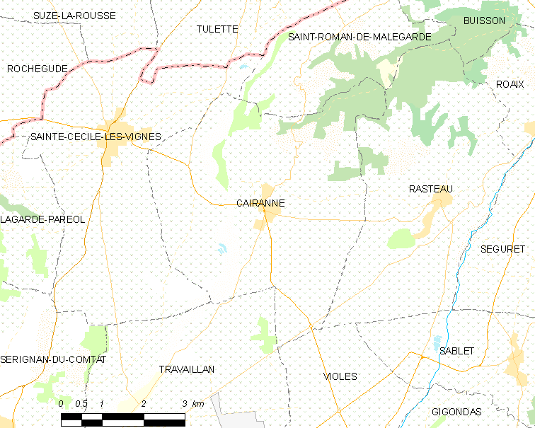 Map of French municipality Cairanne